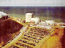 Palisades Nuclear Plant